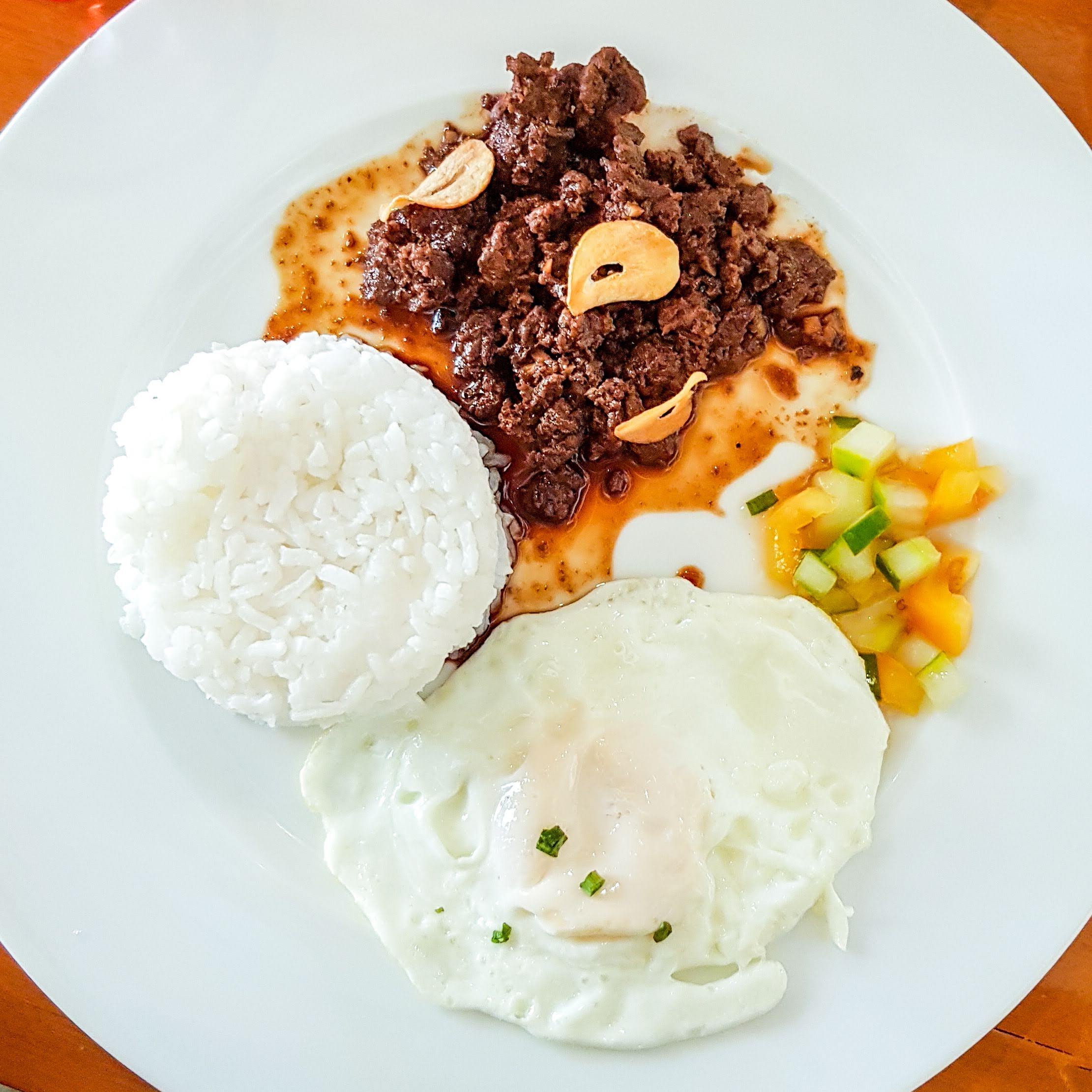 Beef tapa with steamed rice and sliced tomato and cucumber